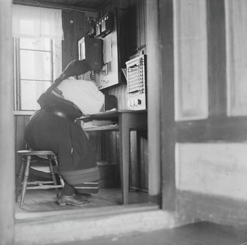 Meyer, Elisabeth Female telegraph operator. Photographs from Setesdal around 1940-42. Gelatin silver print, baryta NMFF.002574-2